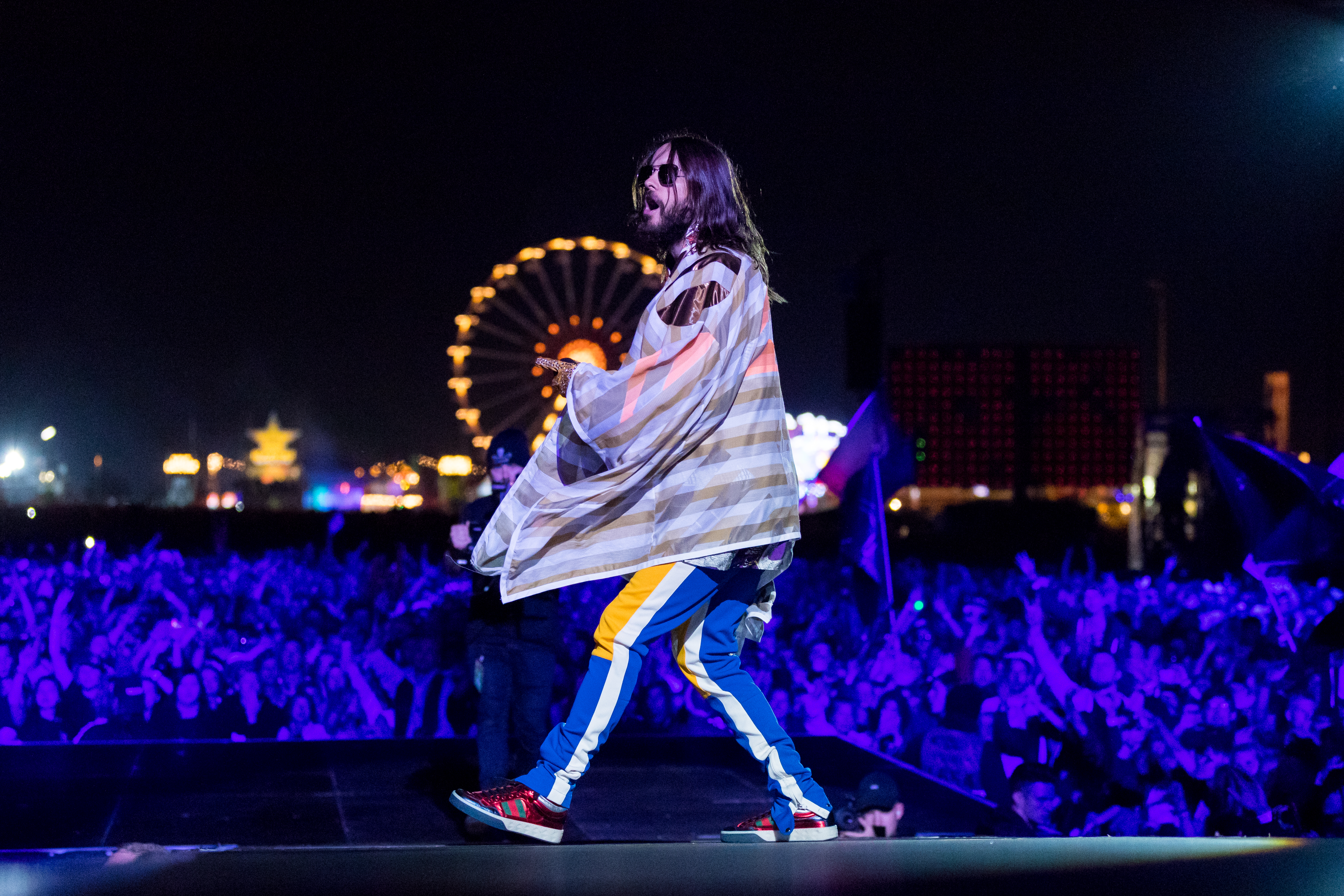 Thirty Seconds to Mars @ Rock am Ring 2018